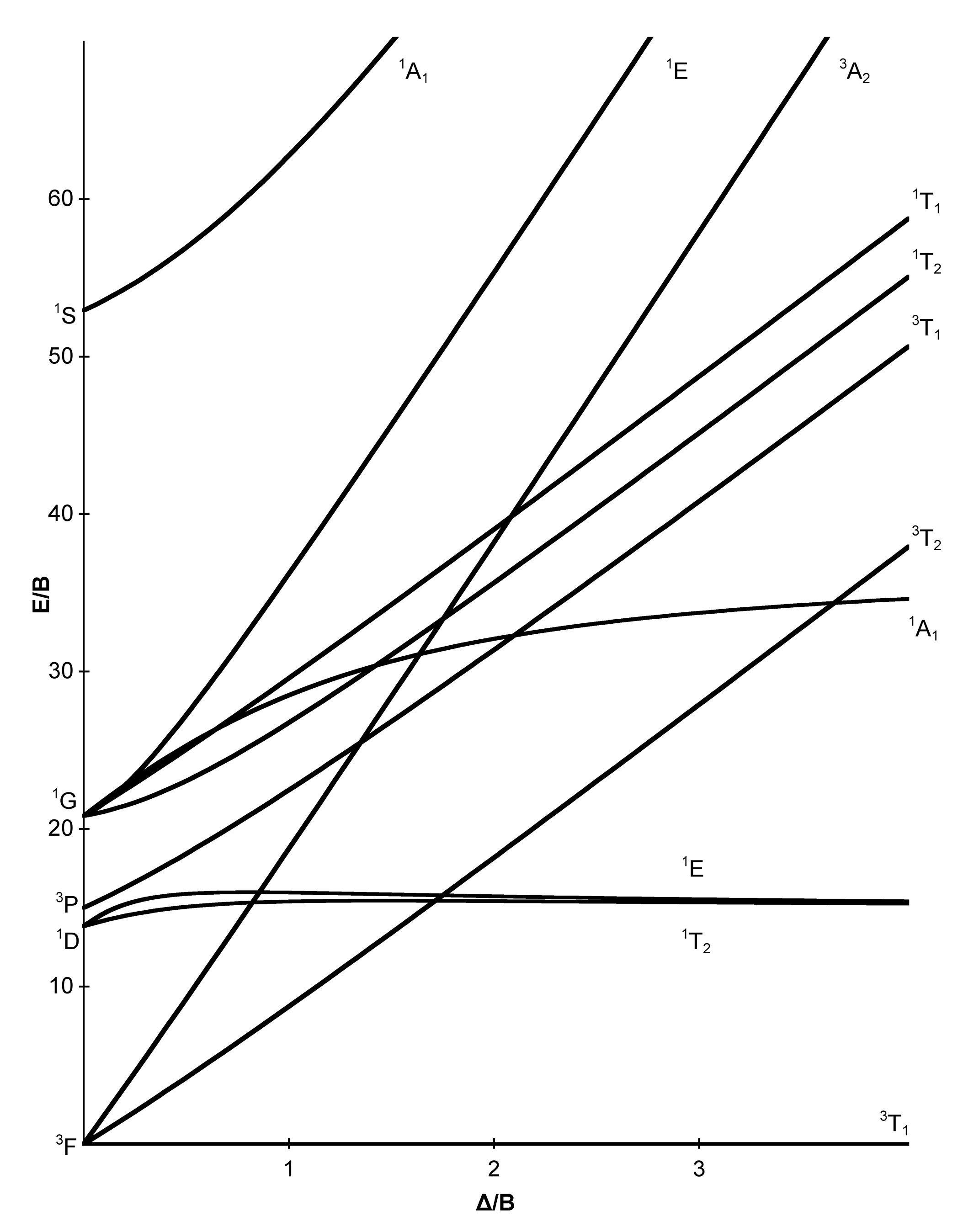 A Tanabe-Sugano diagram for the octahedral d2 electron configuration.